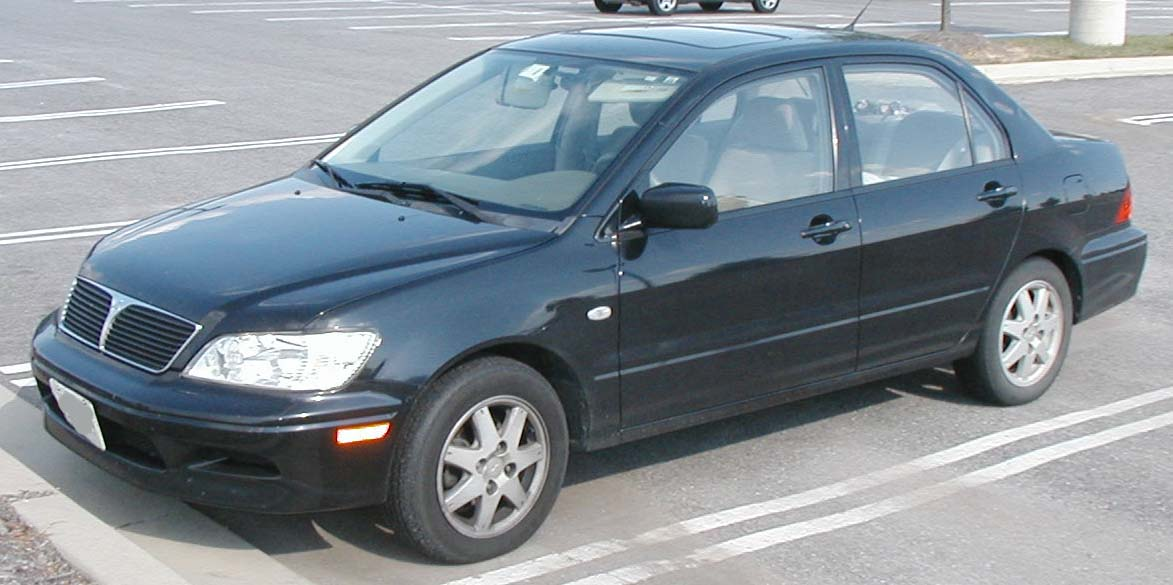 2002-2003 Mitsubishi Lancer photographed in USA.